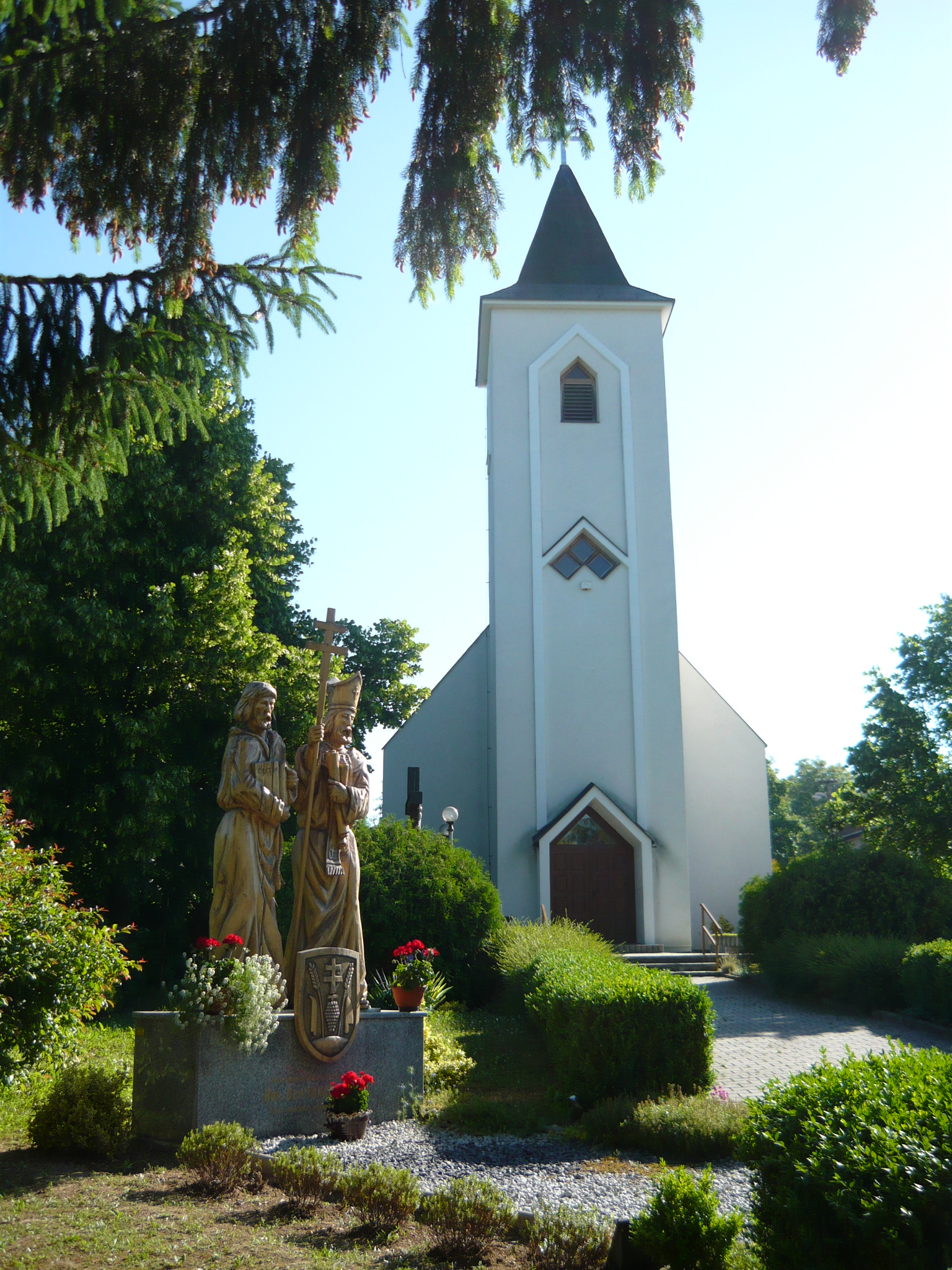 Sts. Cyril and Methodius church in Velušovce, Slovakia.